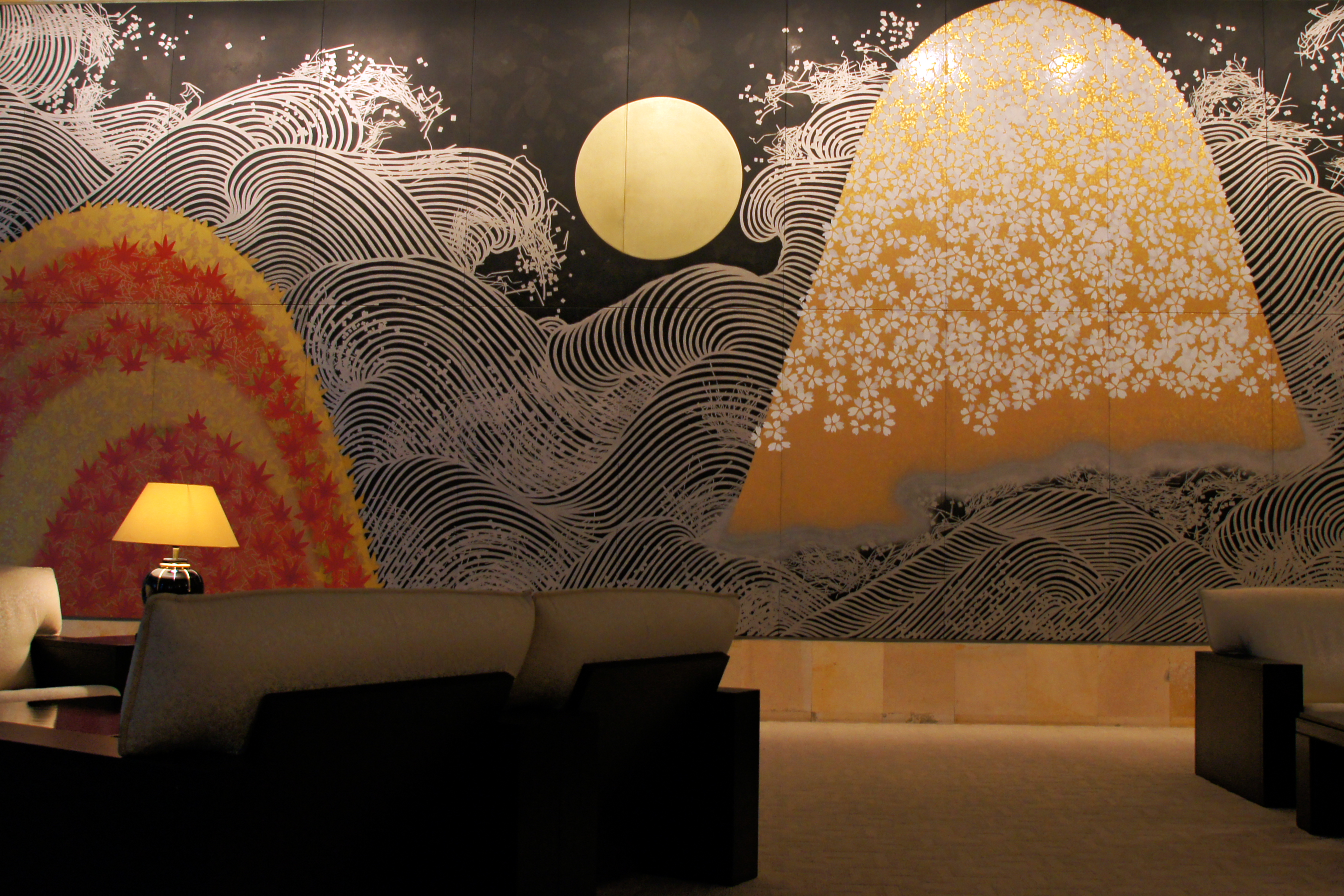 at KAI Tsugaru in Owani, Aomori prefecture, Japan